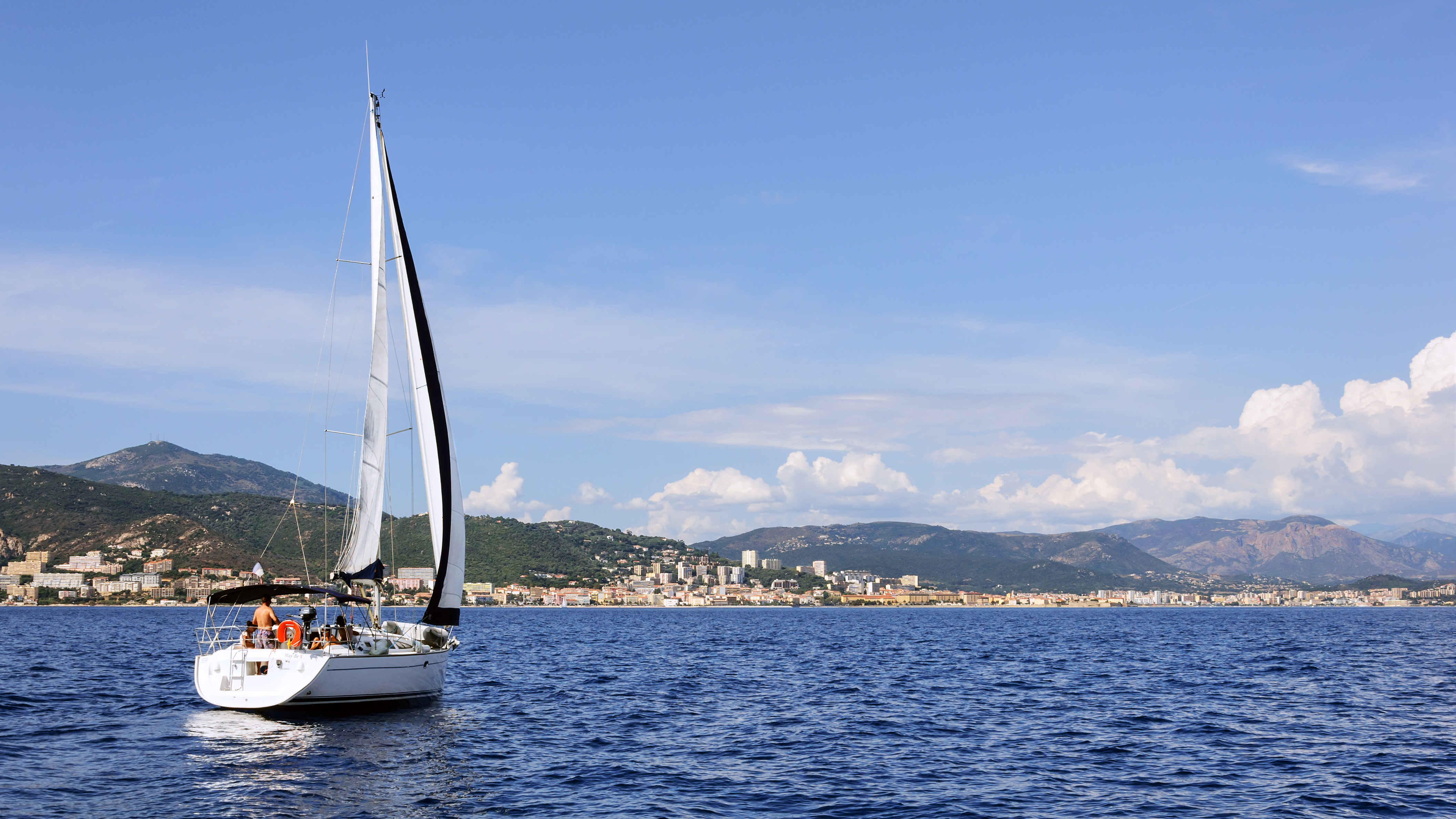 Sailing in the bay of Ajaccio, Southern Corsica, France. The sailing yacht is a Jeanneau Sun Odyssey 35.